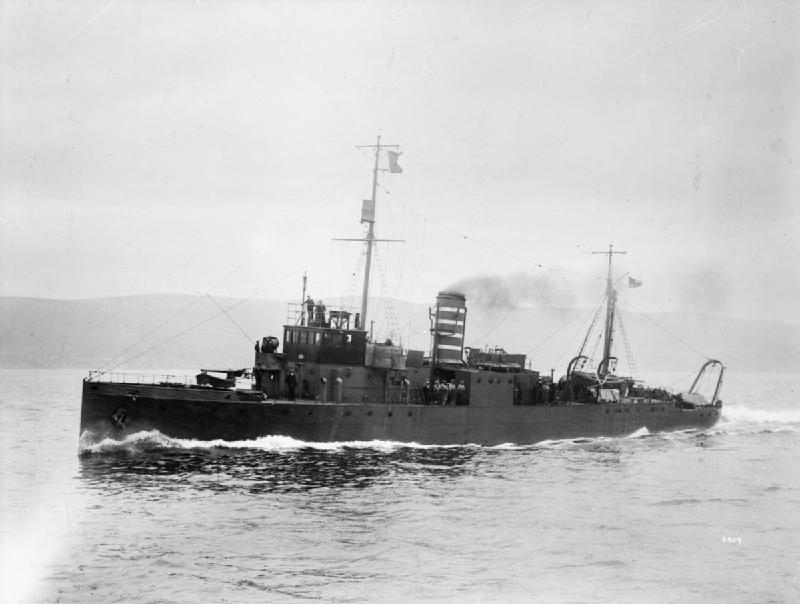 Photograph of British Hunt class minesweeper HMS Belvoir.